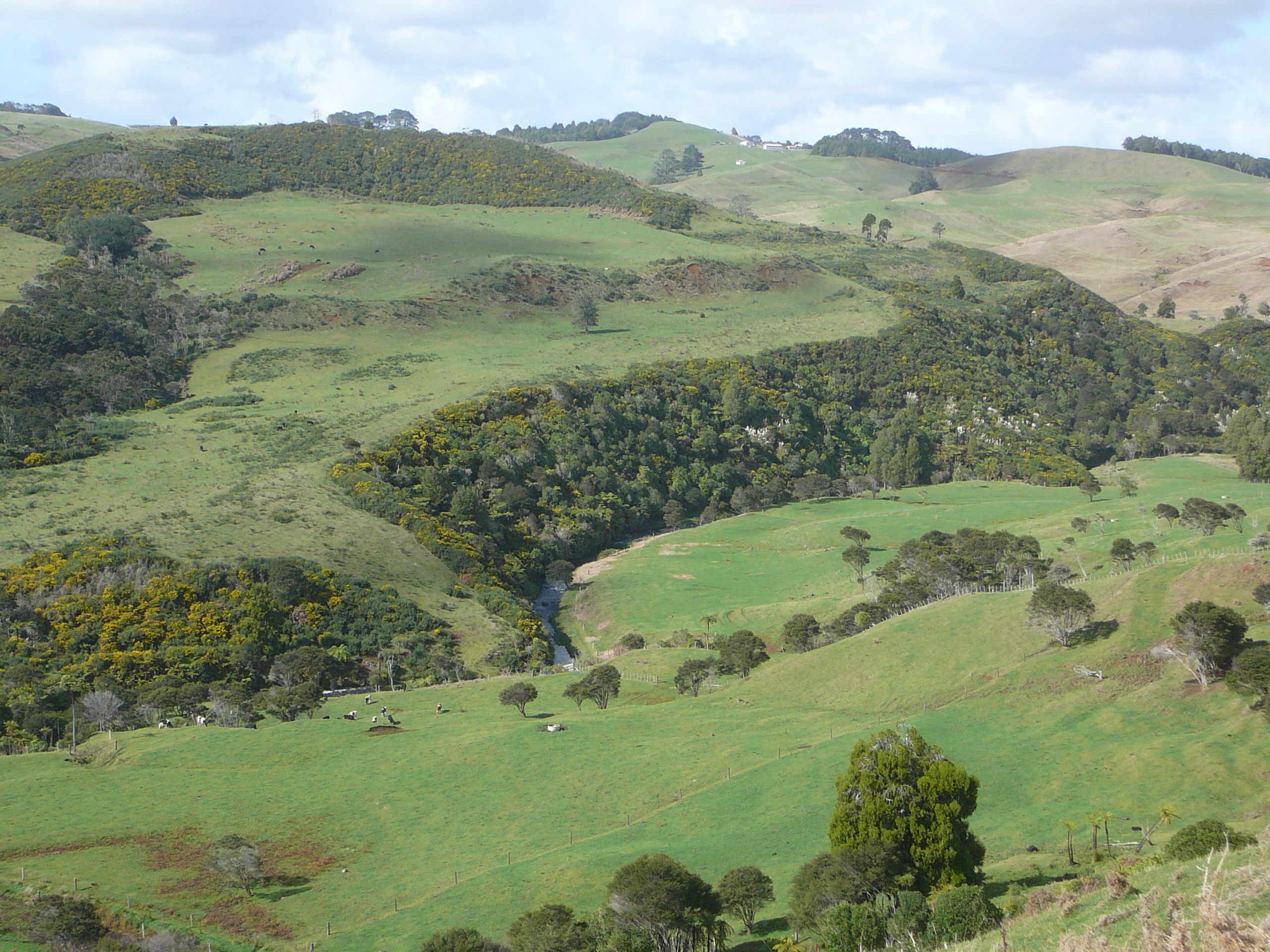 about 1km up from previous photo